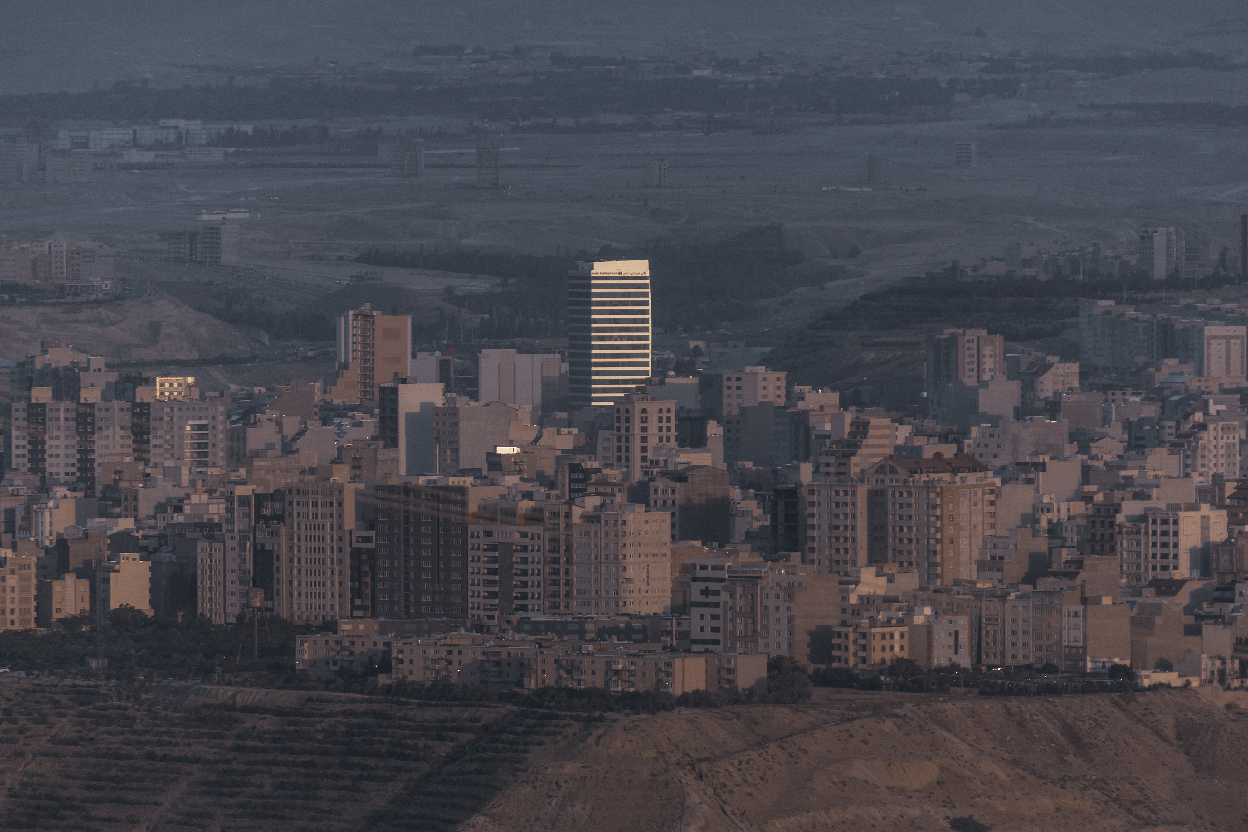 Tabriz is the most populous city in northwestern Iran, one of the historical capitals of Iran and the present capital of East Azerbaijan Province.